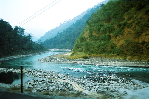 The Teesta River, which begins in the Himalayas, is the lifeline of the Indian state of Sikkim, almost bisecting the state before merging with the mighty Brahmaputra.